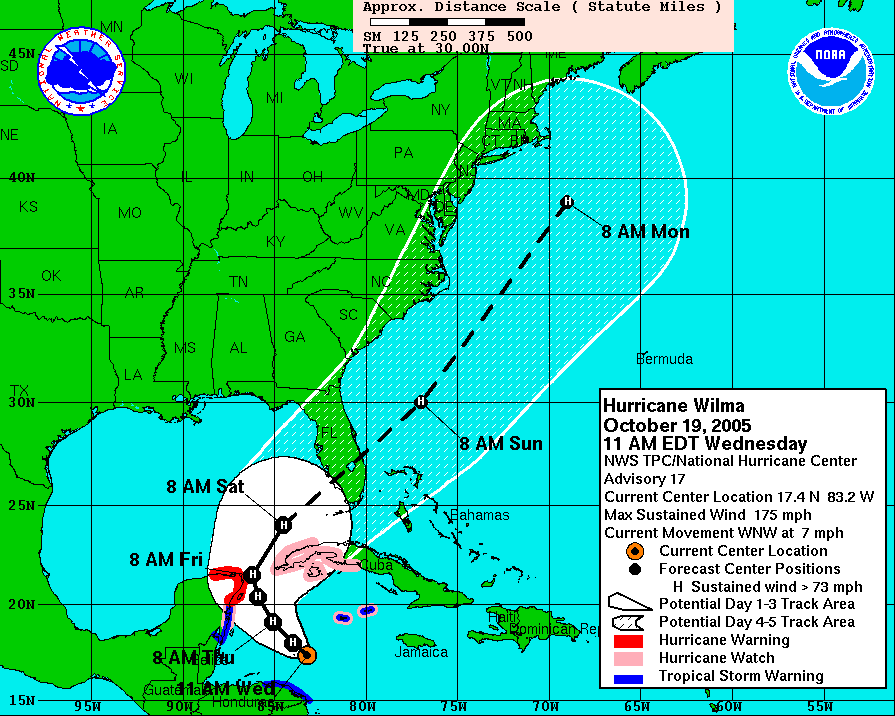 Hurricane Wilma Projected path at 11am October 19, 2005. src